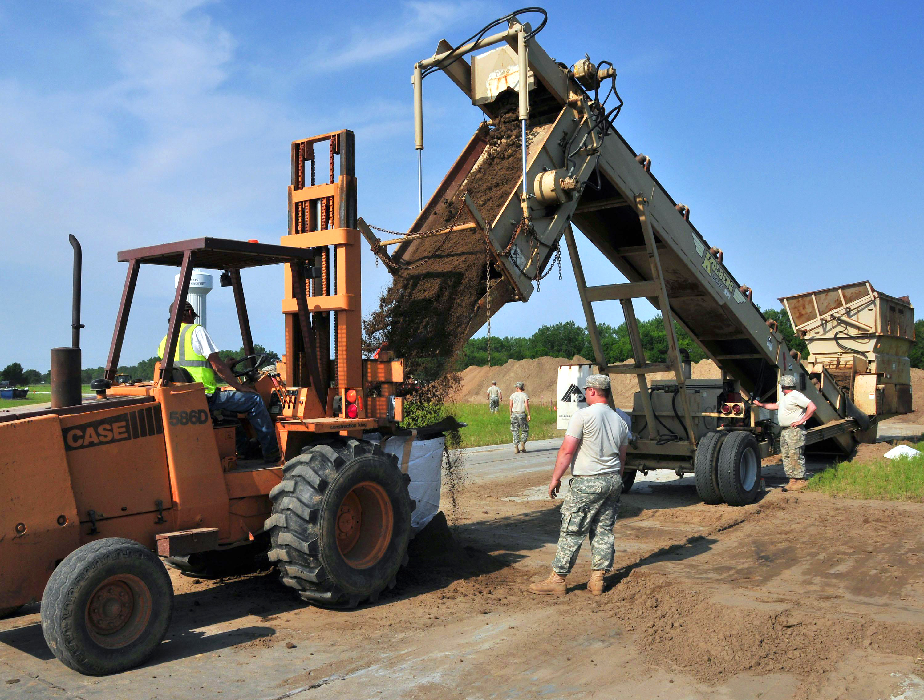 Air Force members fill sandbags in preparation for the possible flooding of the Missouri River in Sioux City, Iowa, June 4, 2011. Case 586D